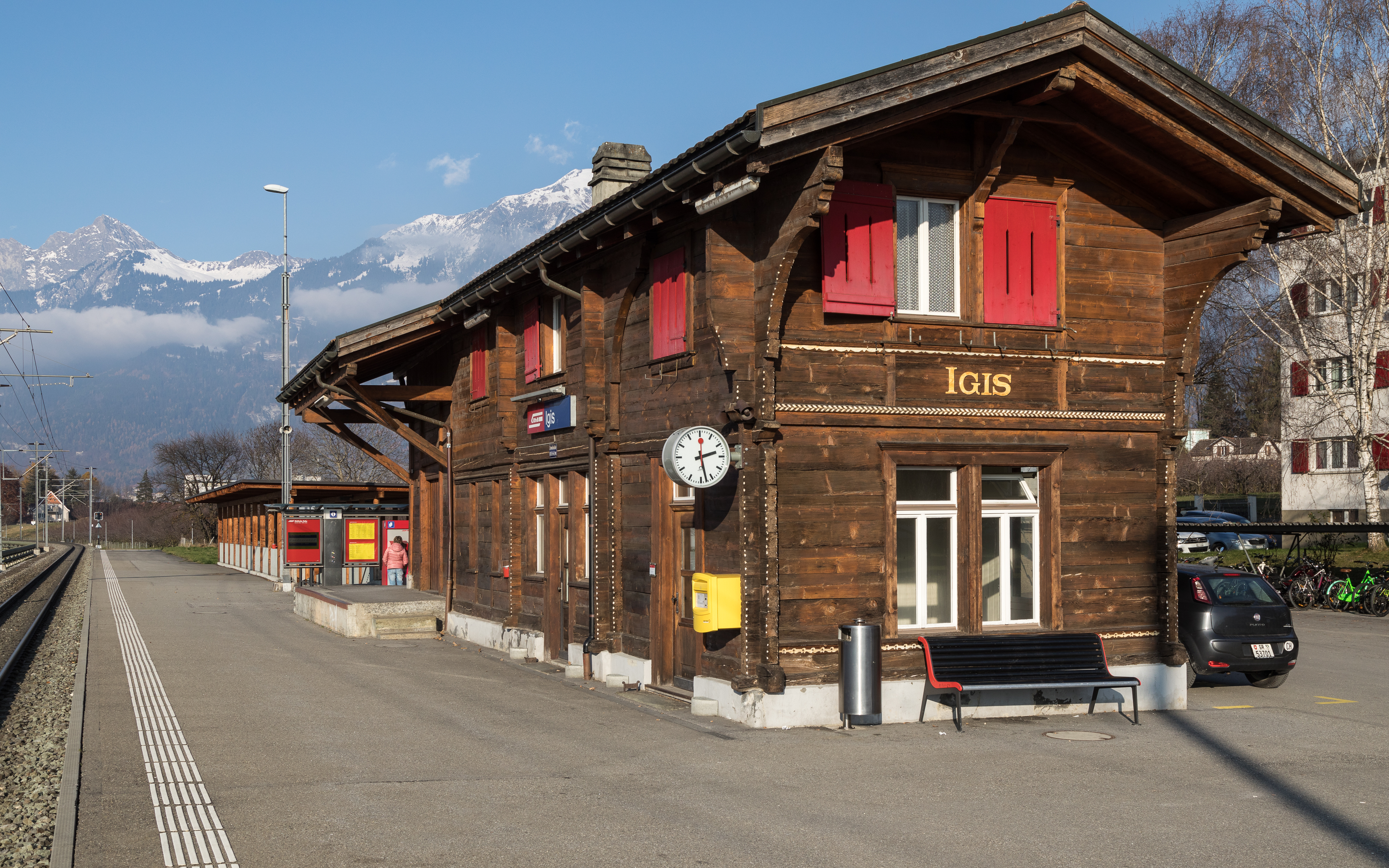 Igis train station of Rhätische Bahn